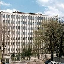 ITM NAS and SCA of Ukraine